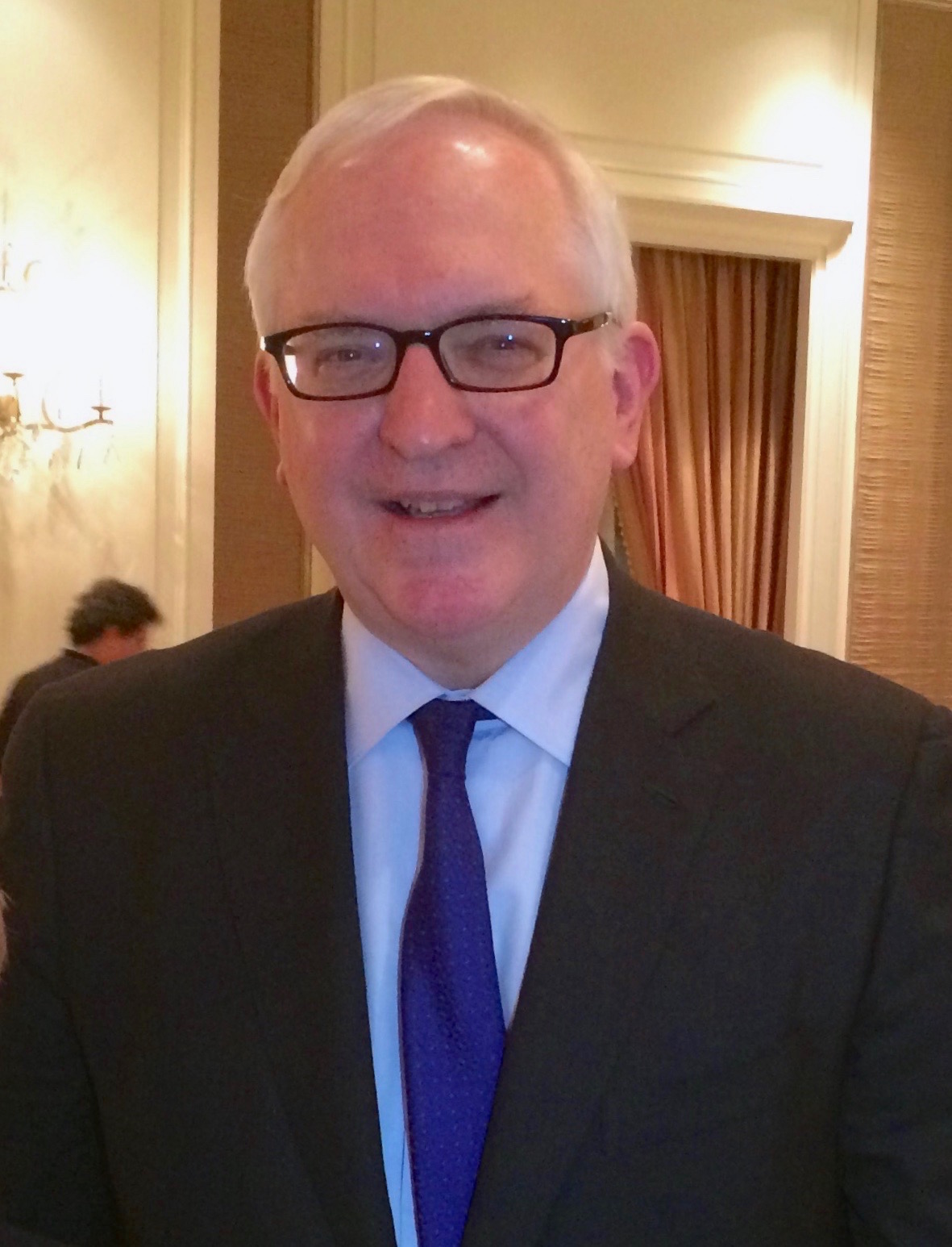 Paul Gigot at WSJ+ Talk Opinion event held on February 9, 2015. If using photo, please credit: Photo courtesy Grant Wickes.